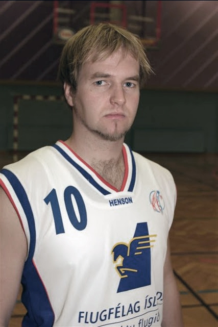 Pétur Már Sigurðsson in 2004 as a member of KFÍ basketball club.